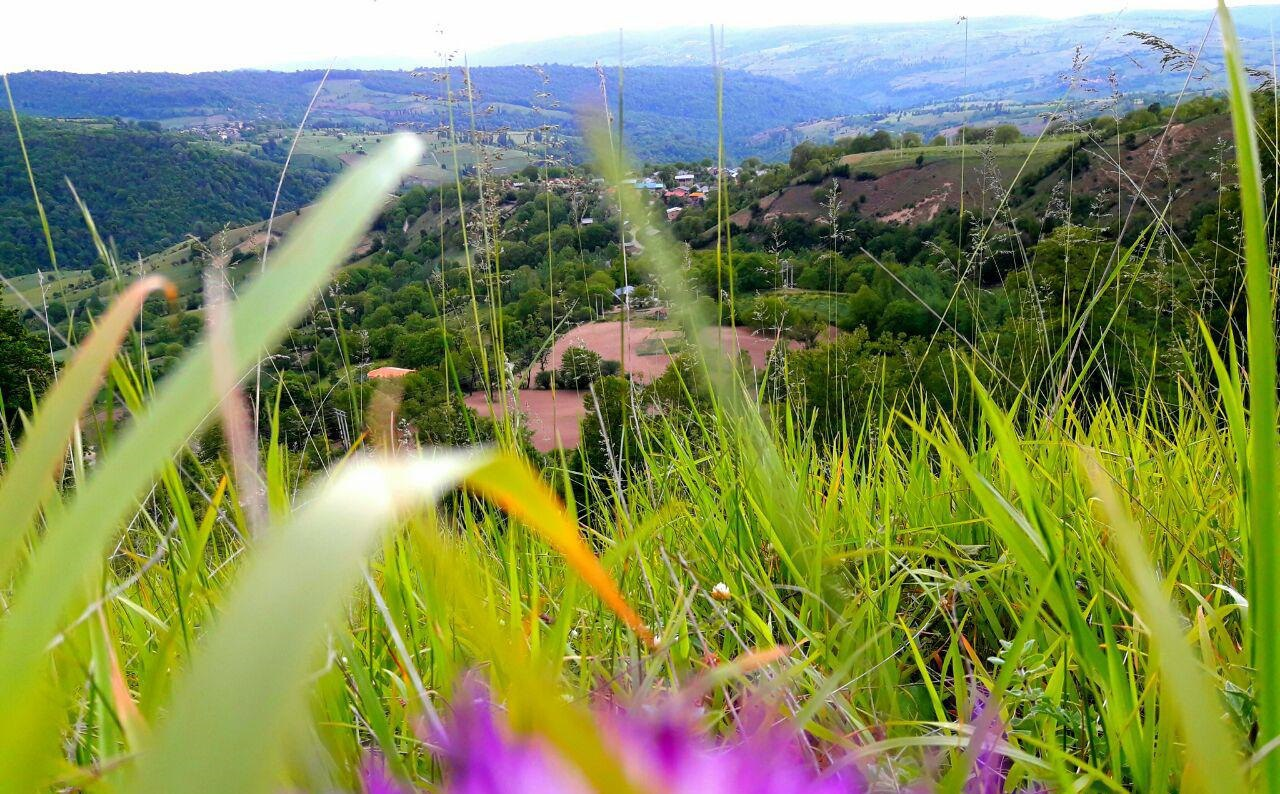 دورنمایی از روستا